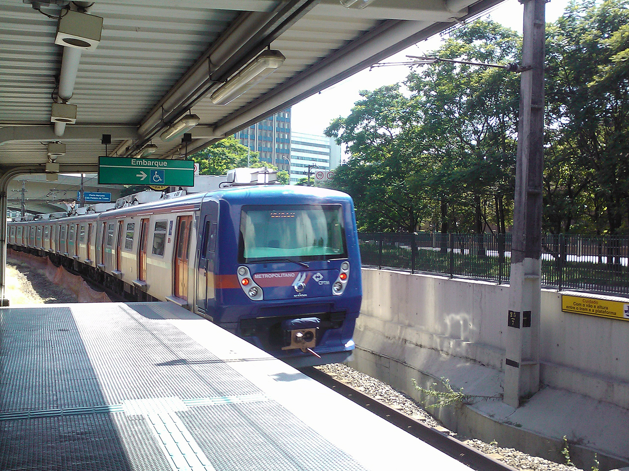 Interior of the 2070 (formerly known as 2000 MKII) Series train built by a consortium of CAF, Alstom and Bombardier in 2008, still using the old CPTM Livery. Morumbi station, São Paulo, Brazil.